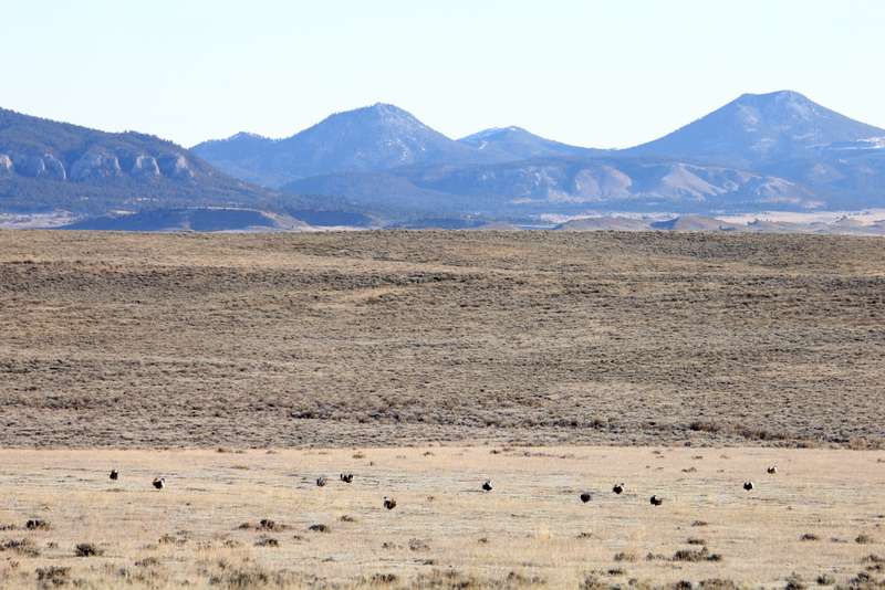 Near Charles M. Russell National Wildlife Refuge. Credit: Katie Theule/USFWS